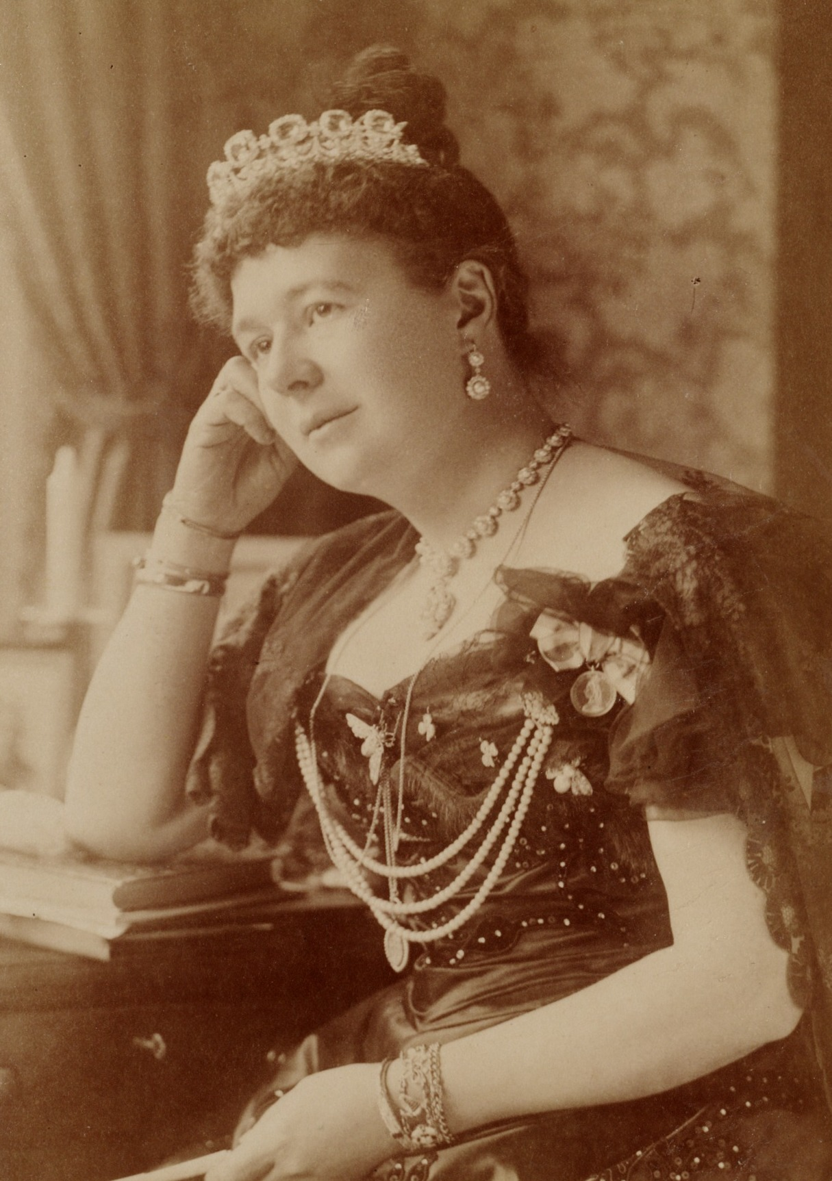 Photograph with signature ("1899") of Ishbel Maria Hamilton-Gordon, Marchioness of Aberdeen and Temair, GBE (15 March 1857 – 18 April 1939). She was a Scottish author, philanthropist and an advocate of woman's interests - see the Wikipedia article.